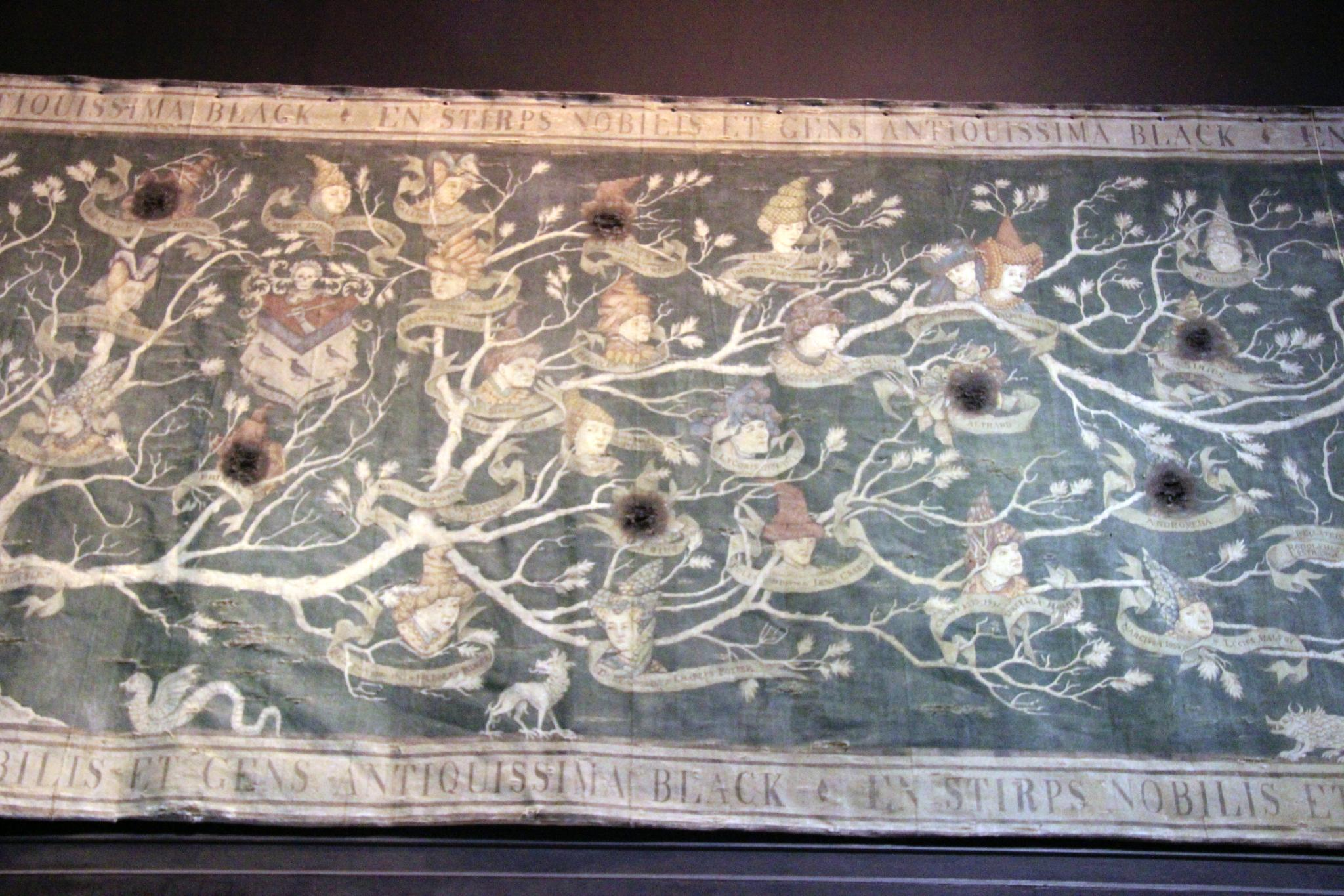 Warner Bros. Studio Tour London: The Making of Harry Potter.